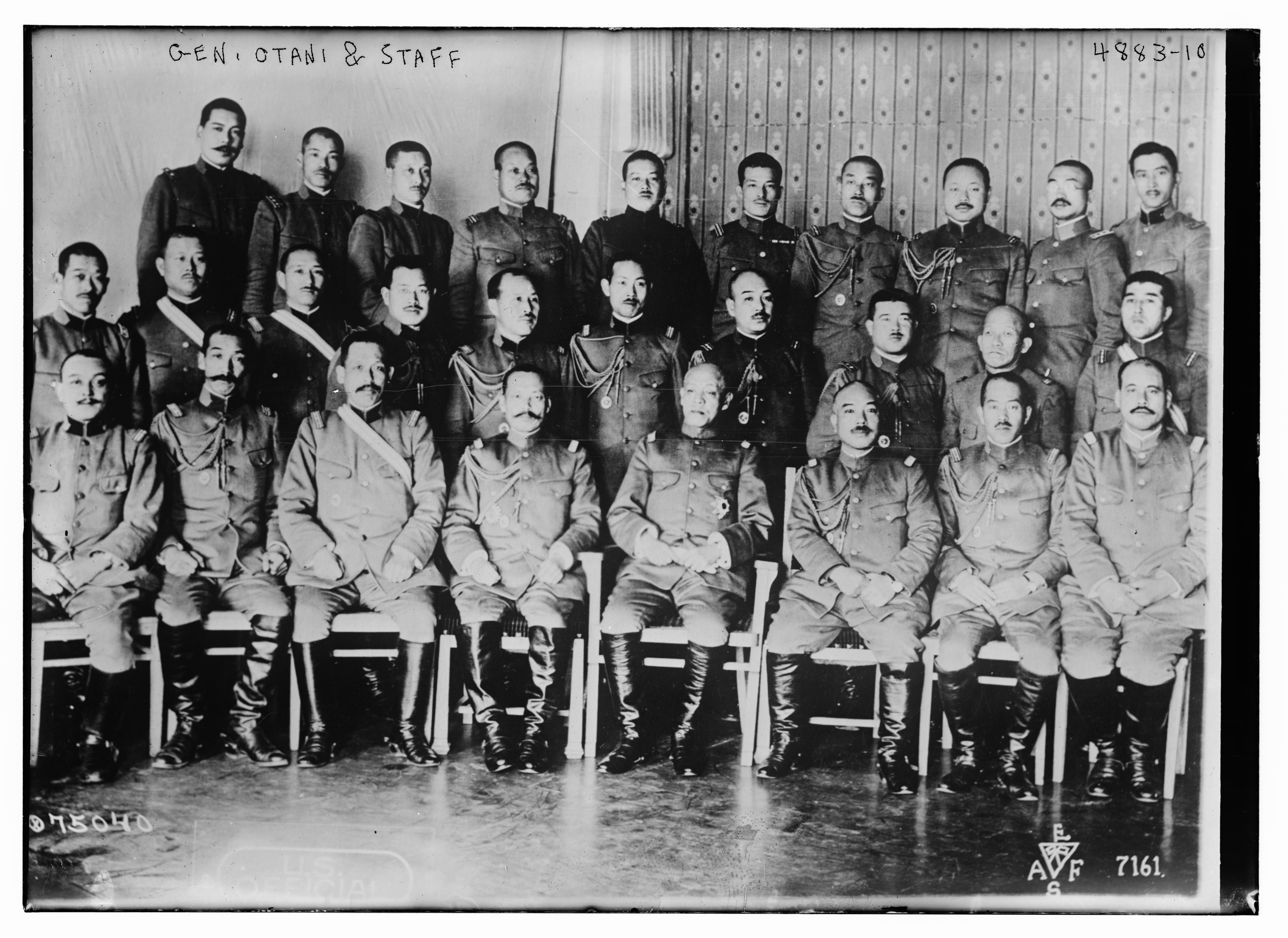 Title: Gen. Otani & staff Abstract/medium: 1 negative : glass ; 5 x 7 in. or smaller.